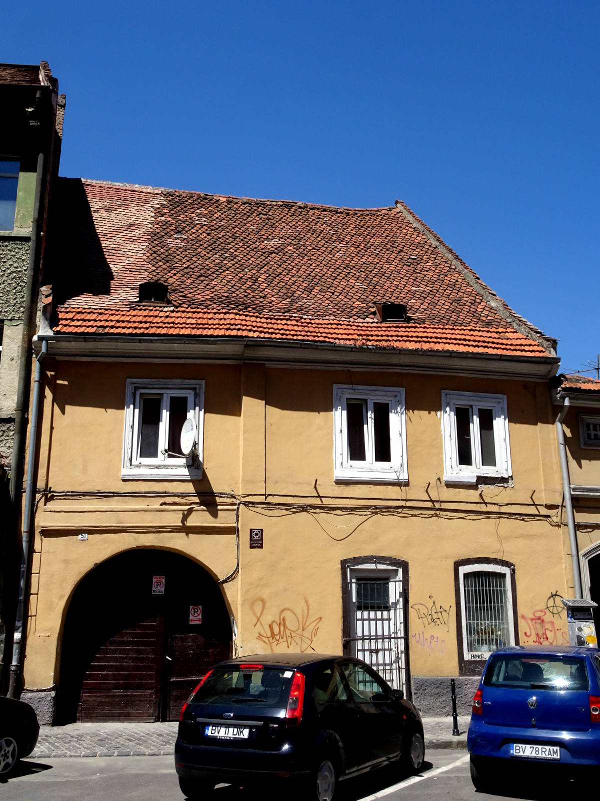 House in Bălcescu street, Brașov